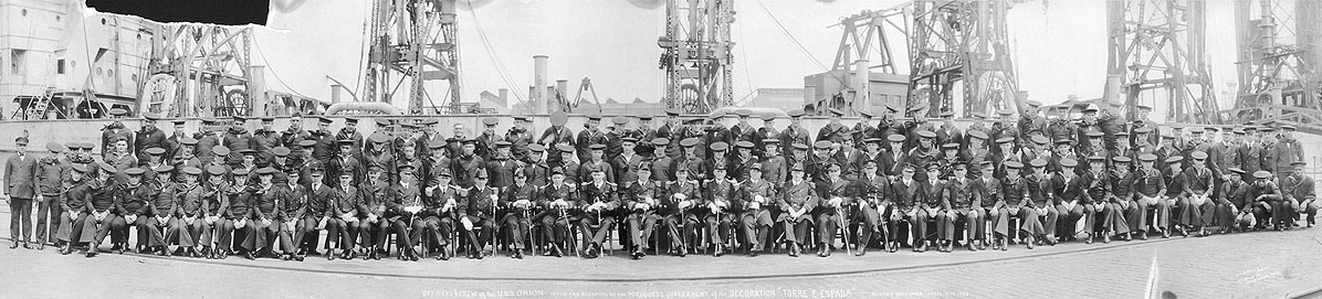 USS Orion Company in Boston after being awarded the Order of the Tower and Sword by the government of Portugal.